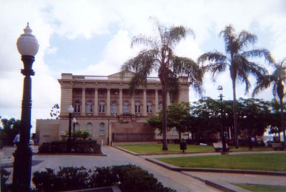 The left side of the old State Library Building, William Street, Brisbane, Queensland, Australia ( this photograph was taken by Figaro )